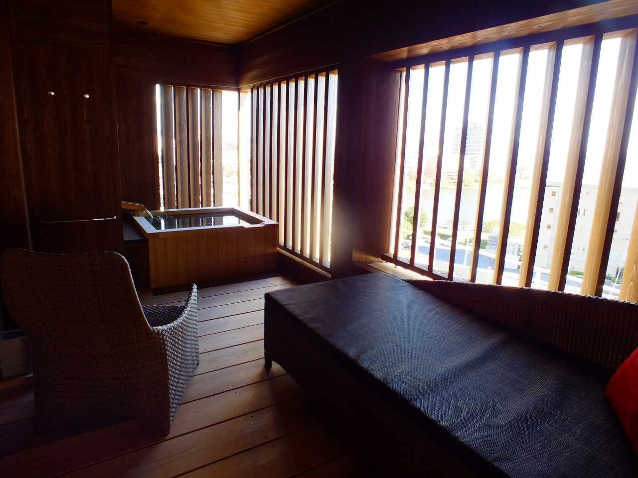 Yumotokan-Ogoto onsen KAROI Guest room-751